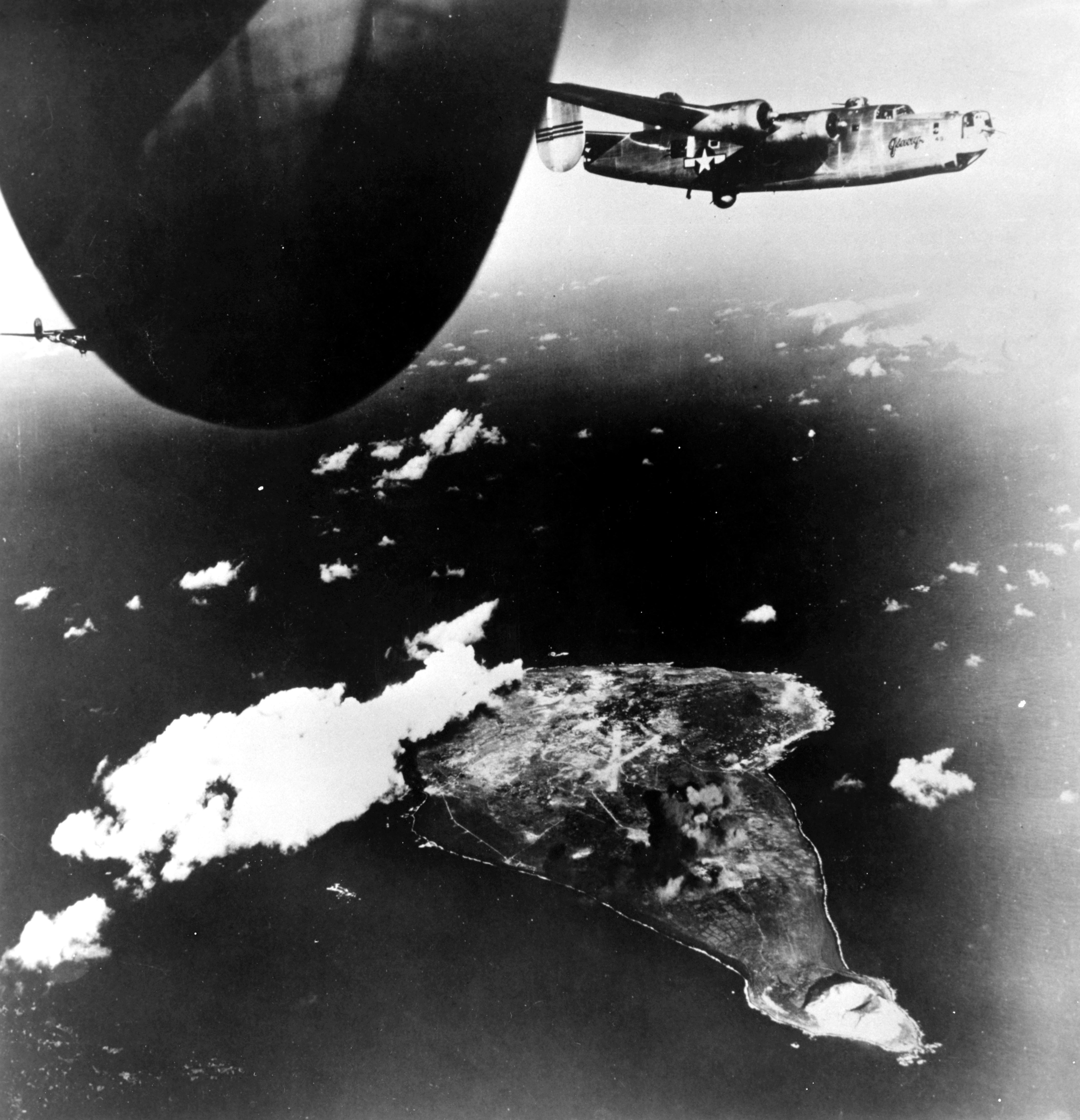 Photo #: NH 65318 "Liberators over Iwo Jima", 15 December 1944 B-24 "Liberators of the Strategic Air Force send their bombs crashing down on Iwo Jima, Japanese air base in the Volcanoes. Smoke and dust belching up from the island show that one of its two airstrips have been hit. This raid of December 15 was one of a series of bombings of the vital Jap fields. The dark oval at the upper left of the photo is the port stabilizer and rudder of the Liberator from which the picture was snapped.